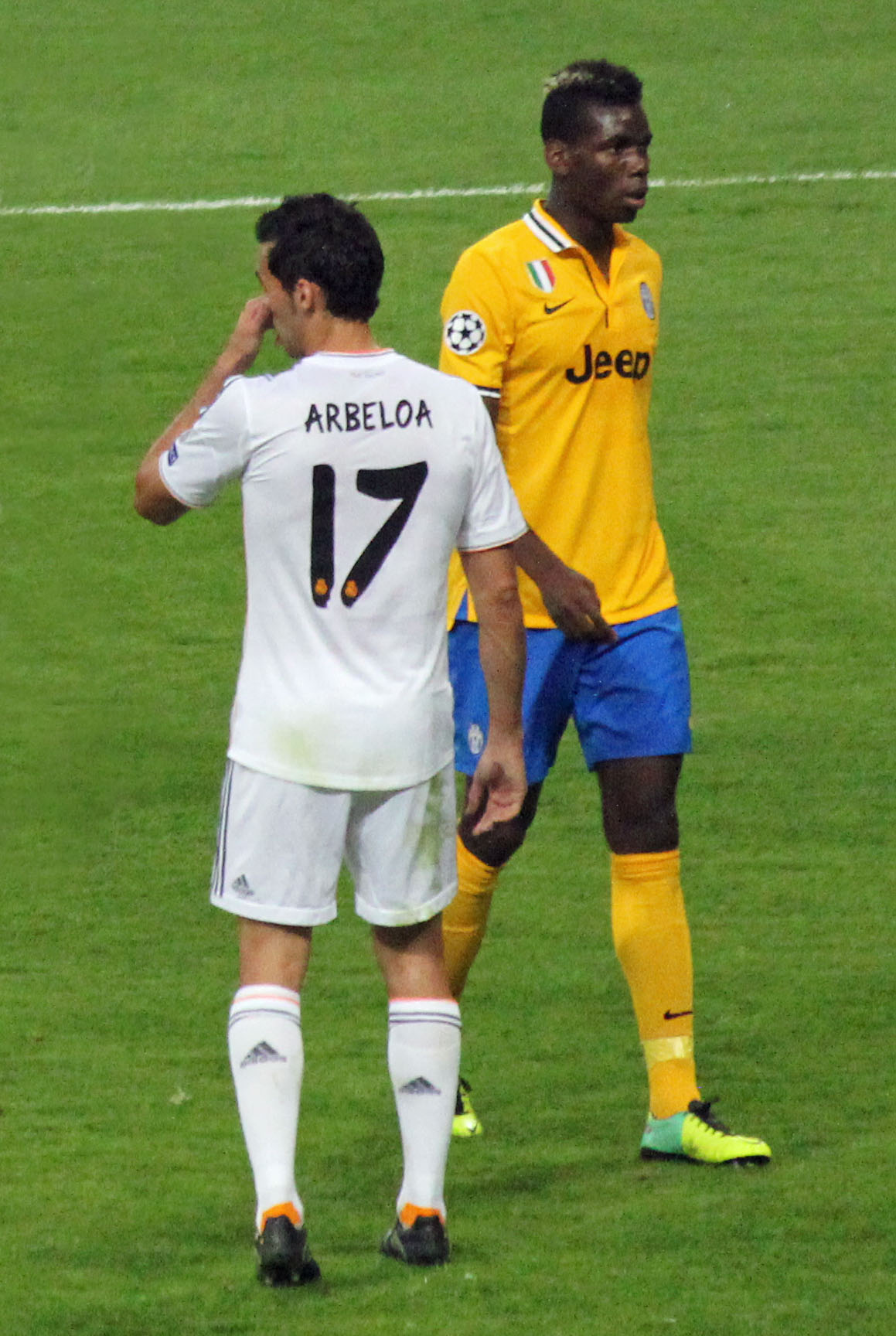 Madrid, 24 October 2013, Santiago Bernabéu Stadium. Real Madrid CF vs Juventus FC (2-1), 2013-14 UEFA Champions League group stage. Blancos' defender Álvaro Arbeloa (left) and Bianconeri's midfielder Paul Pogba (right).